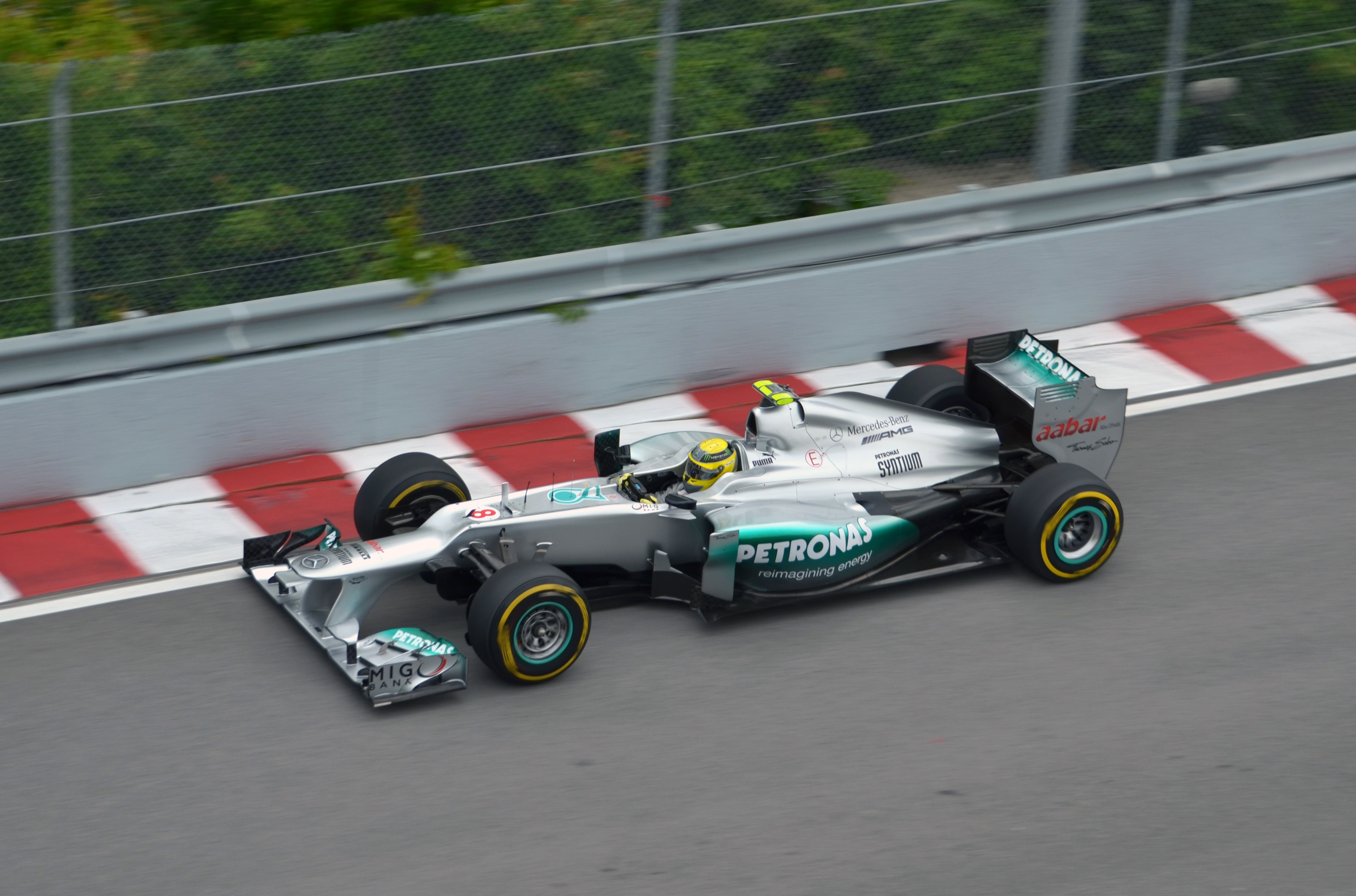 Nico Rosberg in the Mercedes F1 W03 exits turn 9 at Circuit Gilles Villeneuve during first practice for the 2012 Canadian Grand Prix.